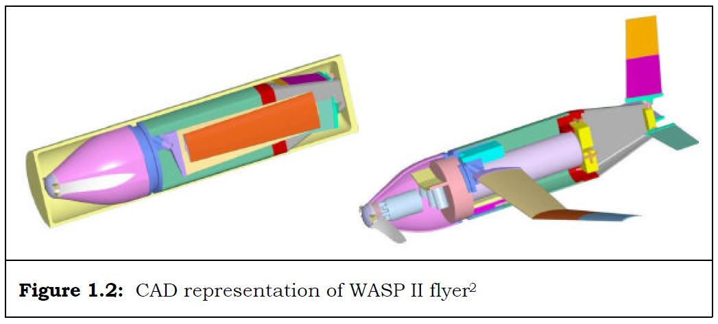 CAD representation of the second generation Wide Area Surveillance Projectile (WASP). On the left the WASP is depicted in its pre-launch configuration. On the right the WASP is shown in its deployed state.